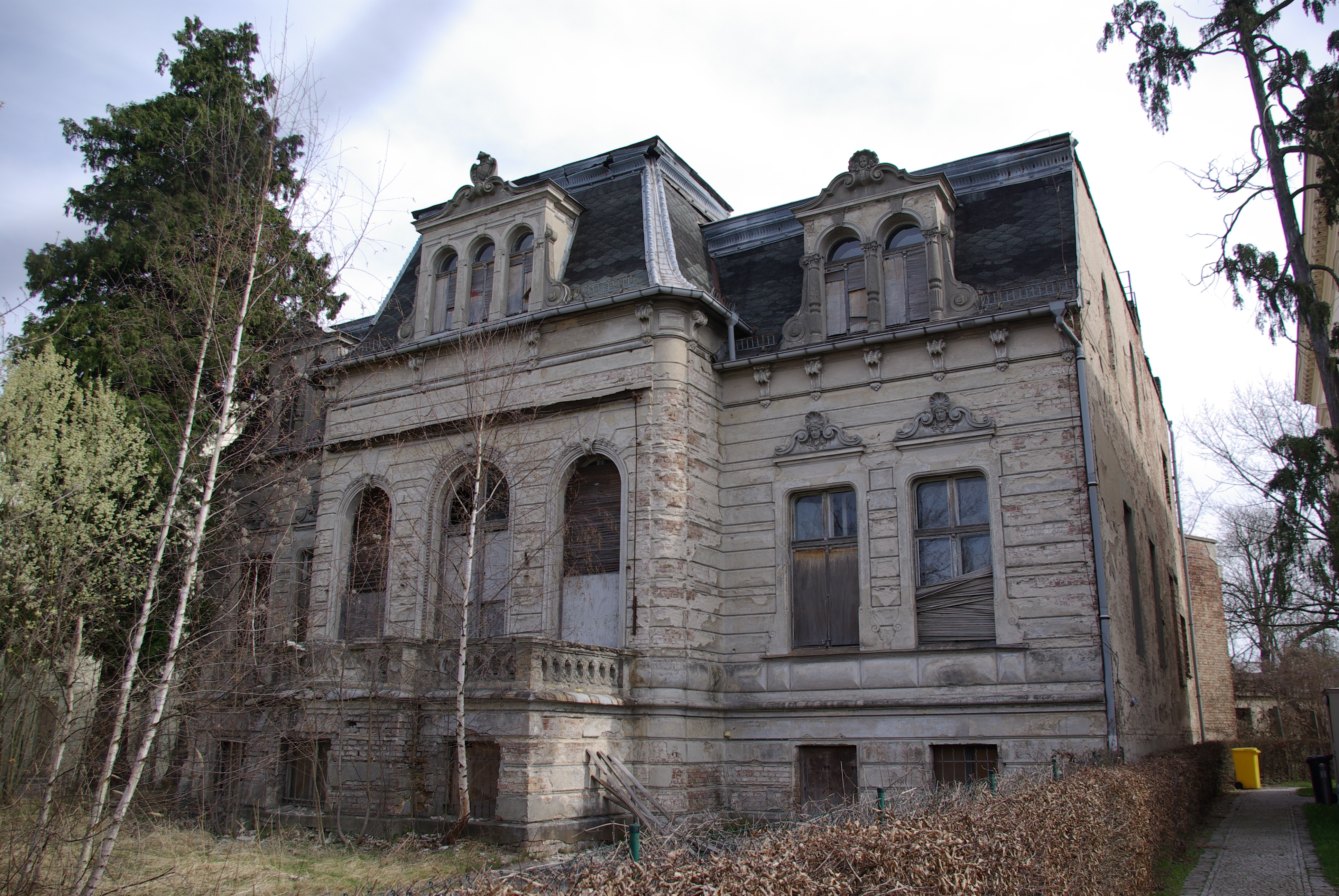 Potsdam in Germany. The house Puschkinallee 6 is a listed building.